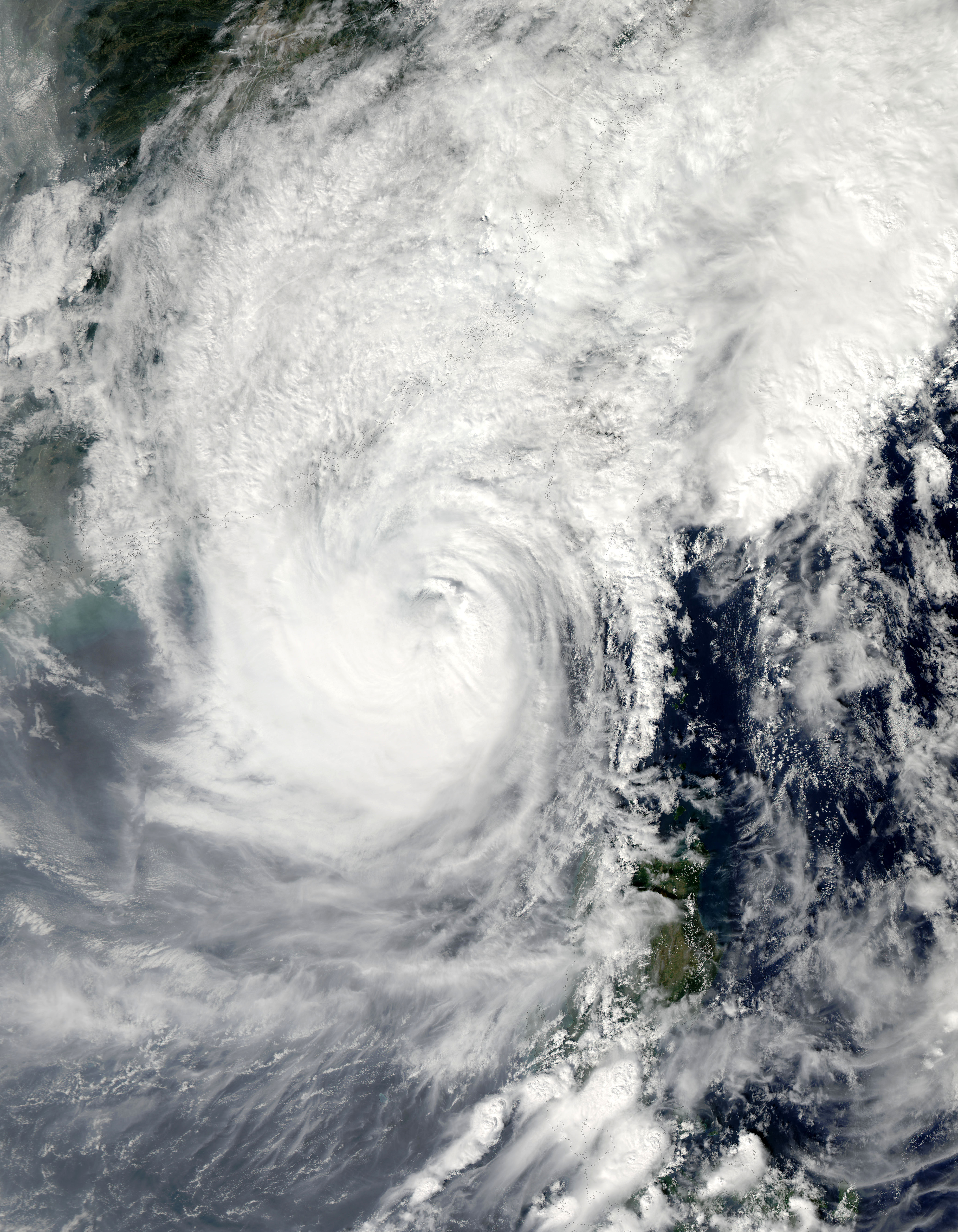 On October 22, 2010, Typhoon Megi inched closer to mainland China, having caused extensive damage in the Philippines and Taiwan. The storm killed at least 26 people in the Philippines and damaged many homes, the BBC reported. BBC and CNN reported mudslides and fatalities in Taiwan, where rescuers were searching for a tour bus that might have been buried, and some 400 motorists were stranded. The Moderate Resolution Imaging Spectroradiometer (MODIS) on NASA’s Aqua satellite captured this natural-color image of Megi on October 22. The storm extends from Taiwan Hong Kong. The same day that MODIS acquired this image, the U.S. Navy’s Joint Typhoon Warning Center reported that Megi had maximum sustained winds of 90 knots (170 kilometers per hour) with gusts up to 110 knots (205 kilometers per hour). The Category 2 storm was roughly 235 nautical miles (435 kilometers) east of Hong Kong and was expected to continue traveling northward, making landfall east of the city. China’s state-run Xinhua news agency stated that Megi could be the strongest typhoon to strike China in 2010, CNN reported.